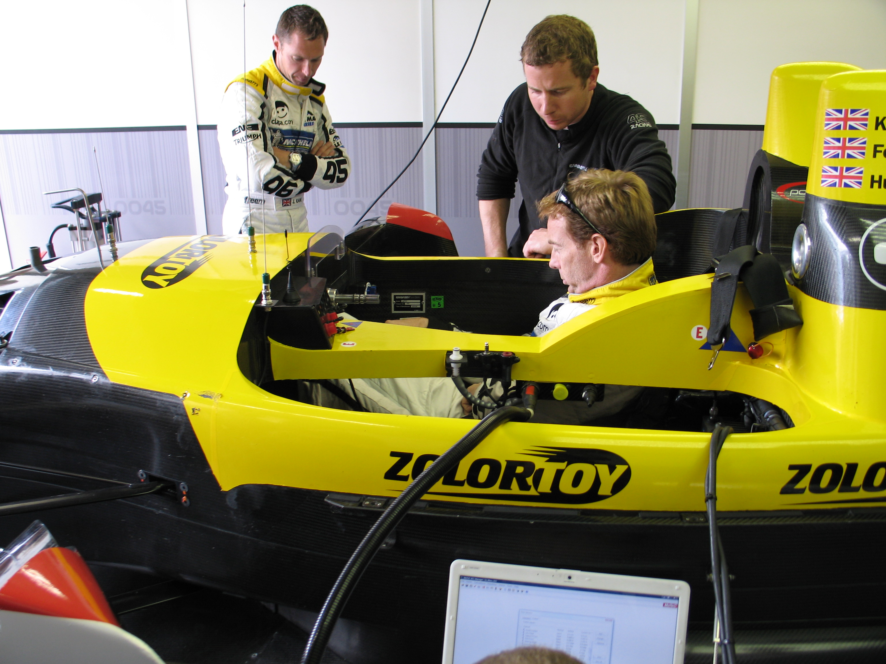 Embassy Racing garage at Le Mans 2008 with Warren Hughes in the car and Jonny Kane looking on.